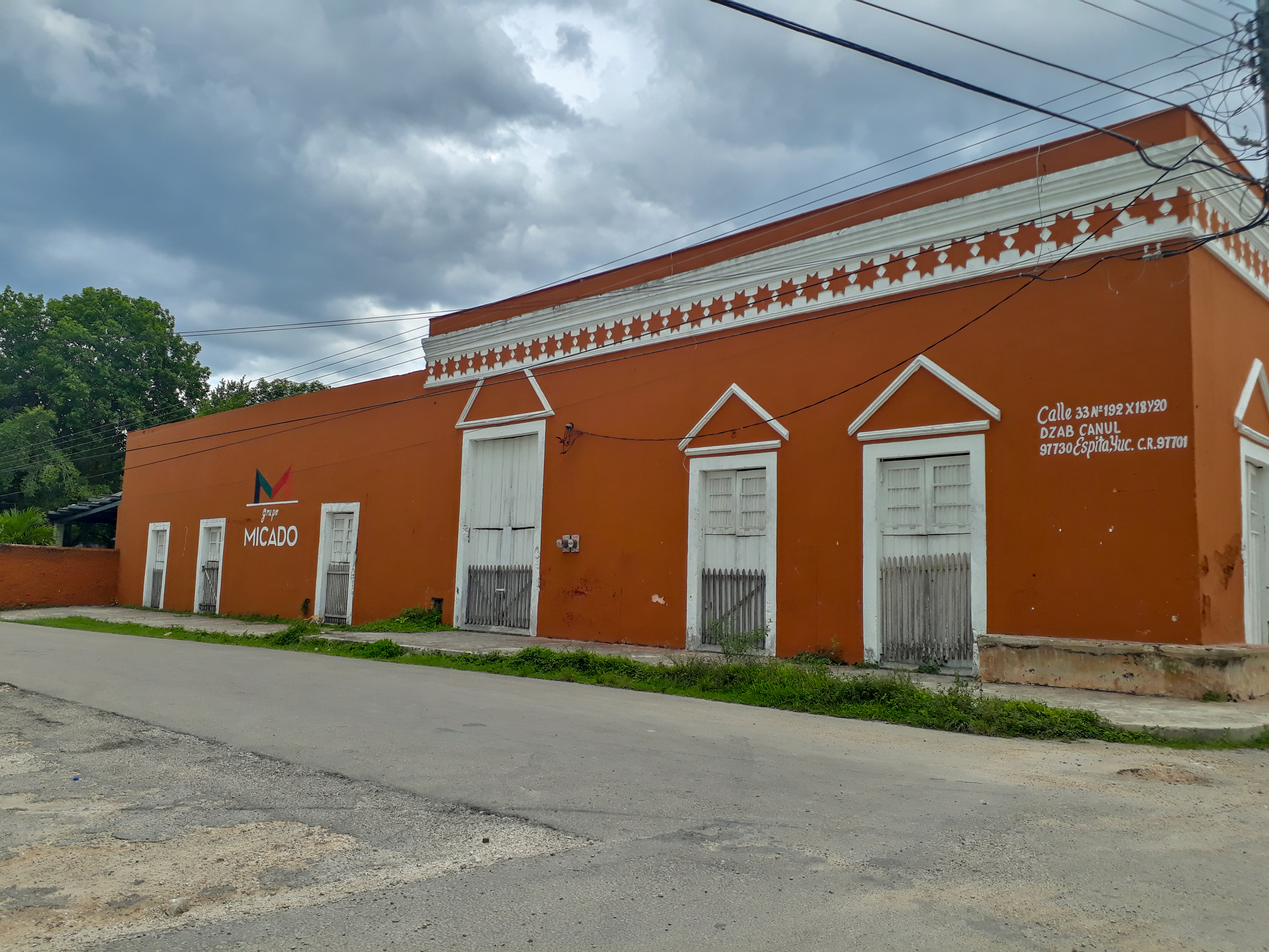 Clothes factory in Espita.